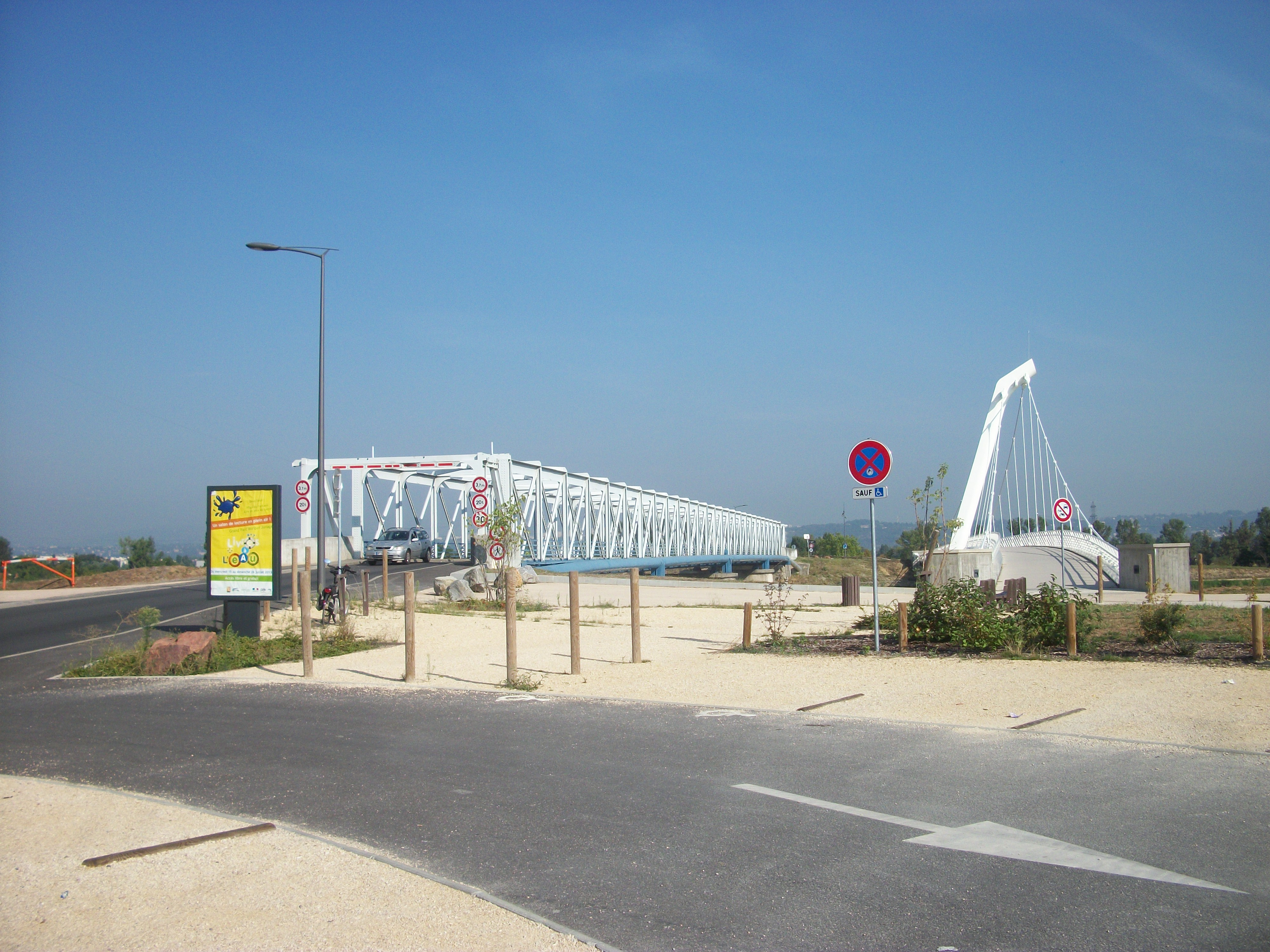 Girder bridge known as "Pont de Décines", in Décines-Charpieu